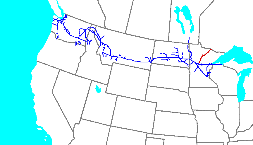 NP map showing Minnesota and International Railway route through central Minnesota created by JP3 and given to Wikipedia